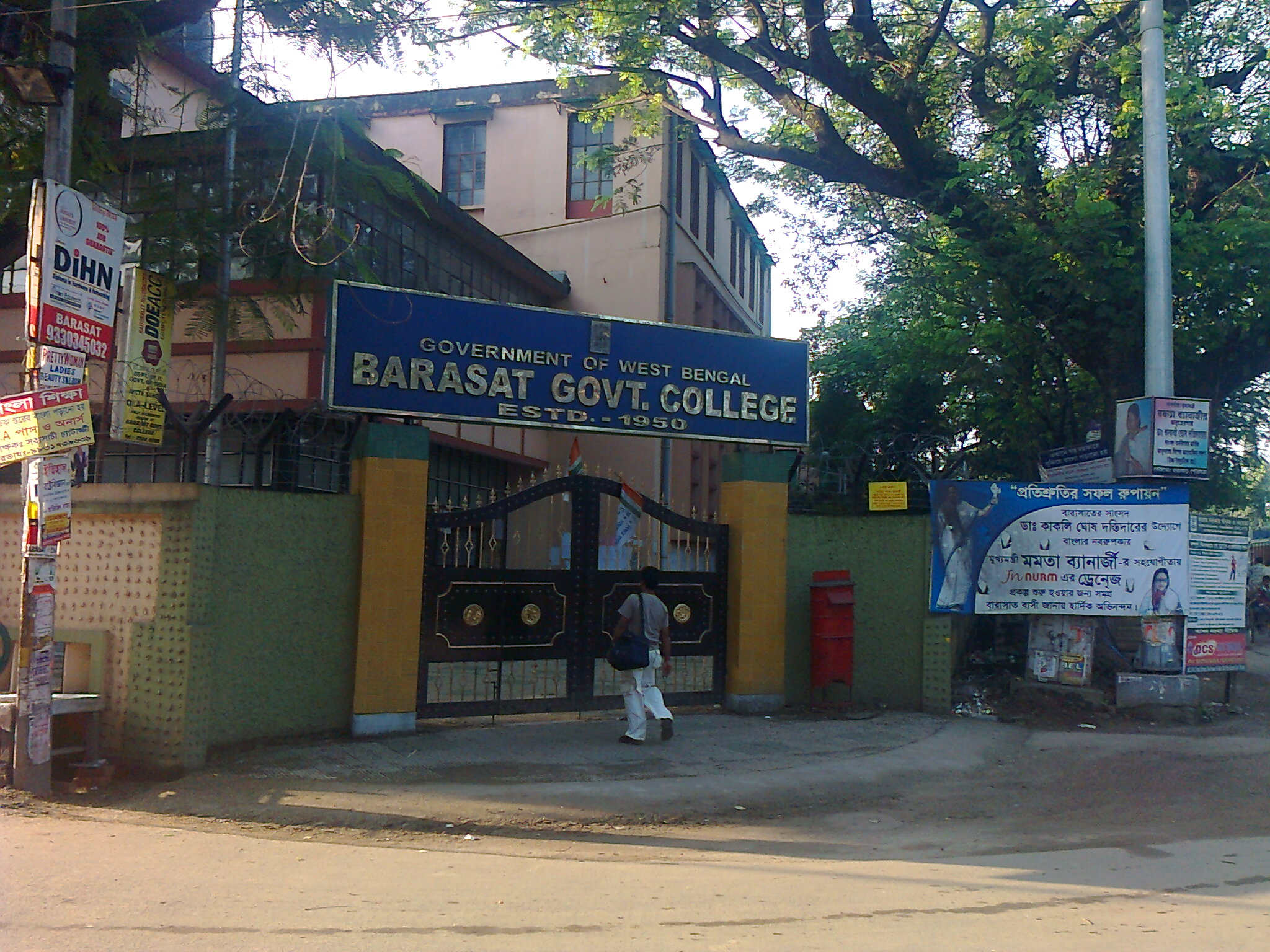 Front Gate of Barasat Government College, West Bengal, India